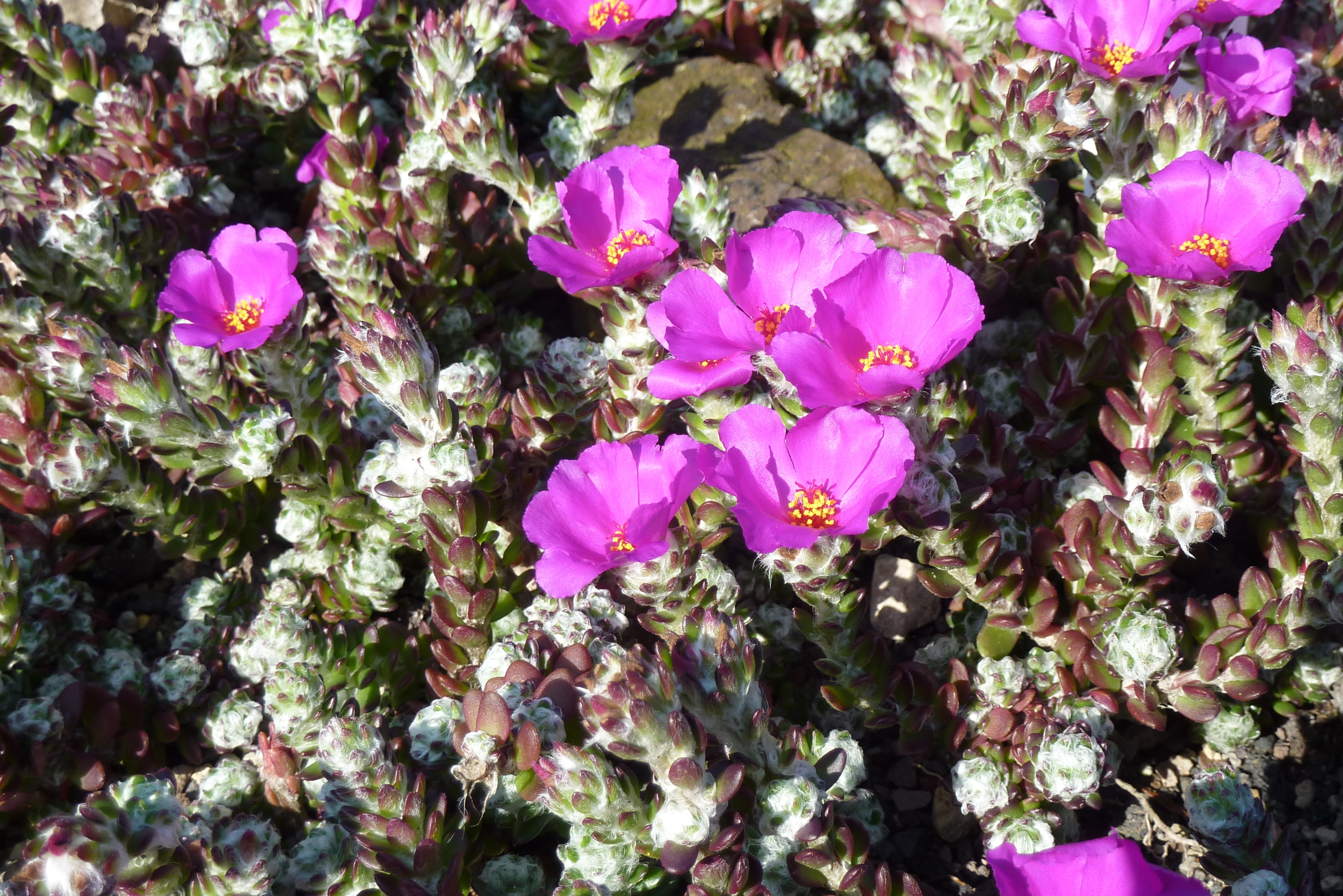 Portulaca werdermannii